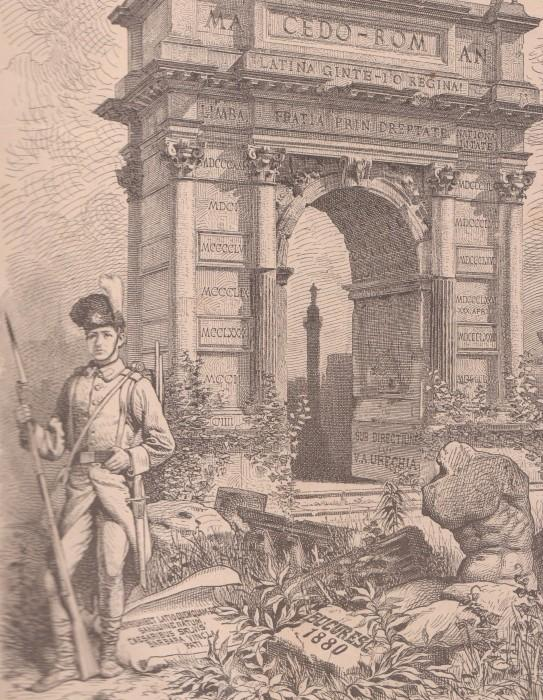 Albumul Macedo-român